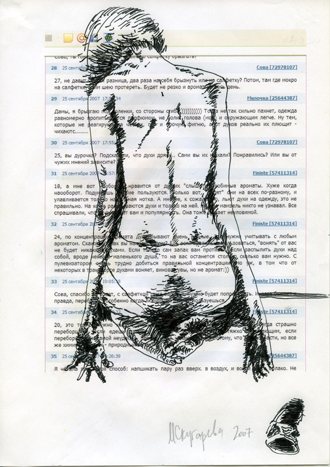 "Good Housekeepers" drawing, drawn in 2009 by Marina Skugareva, a Ukrainian contemporary art painter.